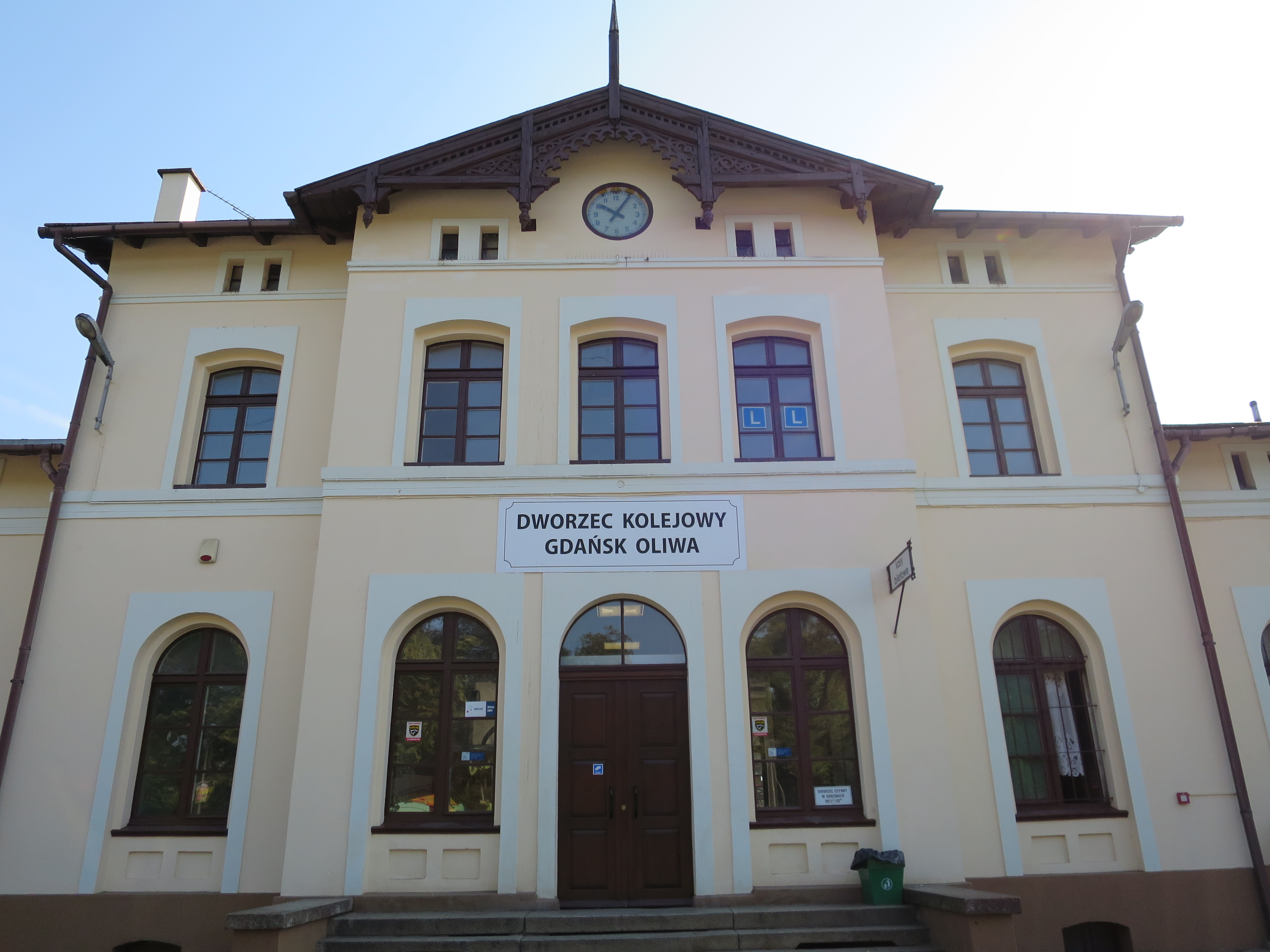 Gdańsk Oliwa This photo was taken during Railway Wikiexpedition 2015 set up by Wikimedia Polska Association in cooperation with Fundacja Grupy PKP. You can see all photographs in category Wikiekspedycja kolejowa 2015.